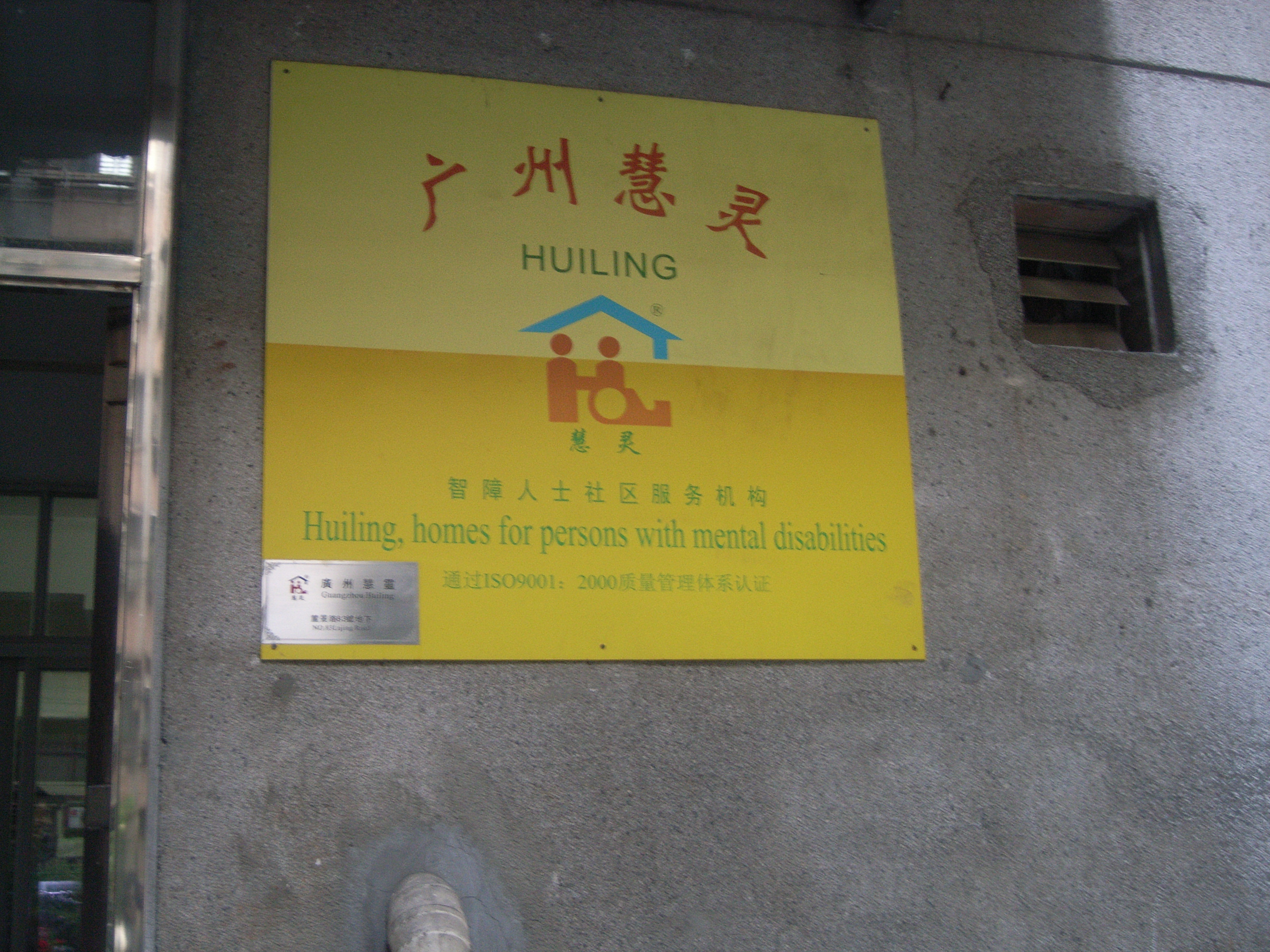 Guangzhou Huiling Head Office